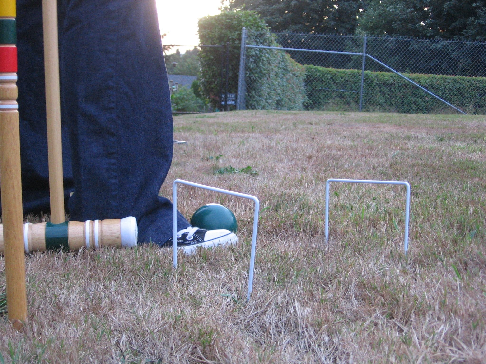 A deceptively casual game of American croquet.